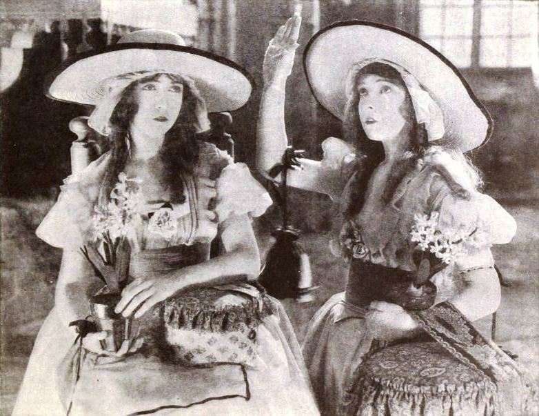 Still for the American silent film Orphans of the Storm (1921) with actresses and sisters Lillian Gish and Dorothy Gish, page 39 of the December 1921 Photoplay.